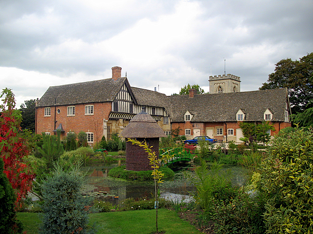 Brockworth Court Brockworth Court was first inhabitated by John Guise, the new Lord of the Manor, in 1540. The tower of St George's church can be seen behind the main building.